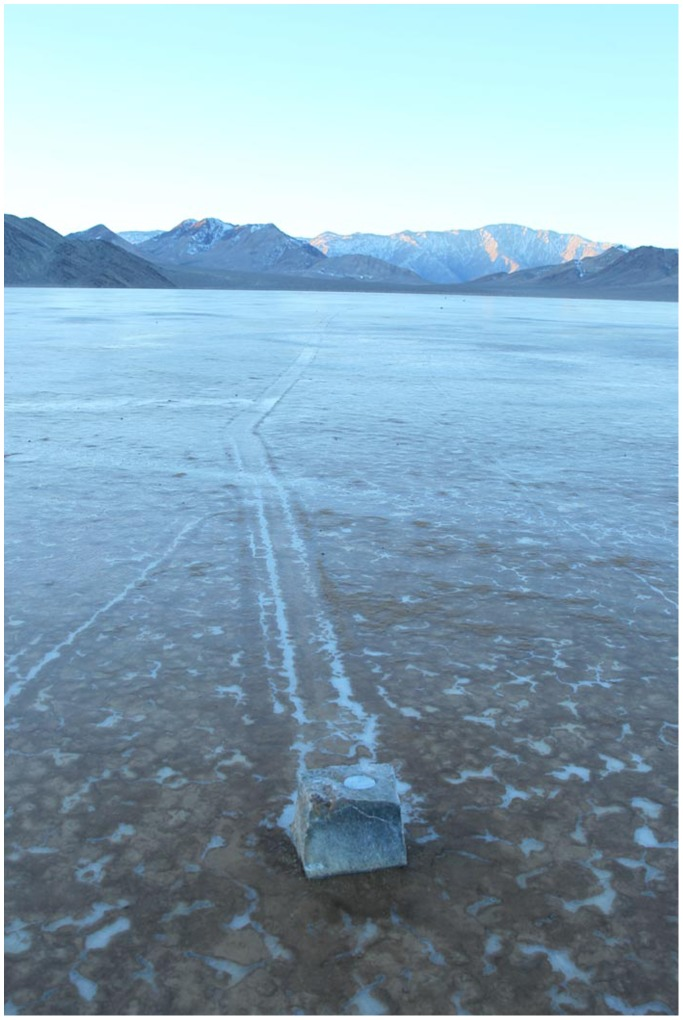 The GPS unit with its battery pack is inserted into a cavity bored into the top of the rock. The GPS continuously logs its position after a switch is triggered by the stone moving away from a magnet set in the playa. The surface of the playa is frozen in this image, but the ice had melted or was floating when the trail formed. Image by Mike Hartmann.